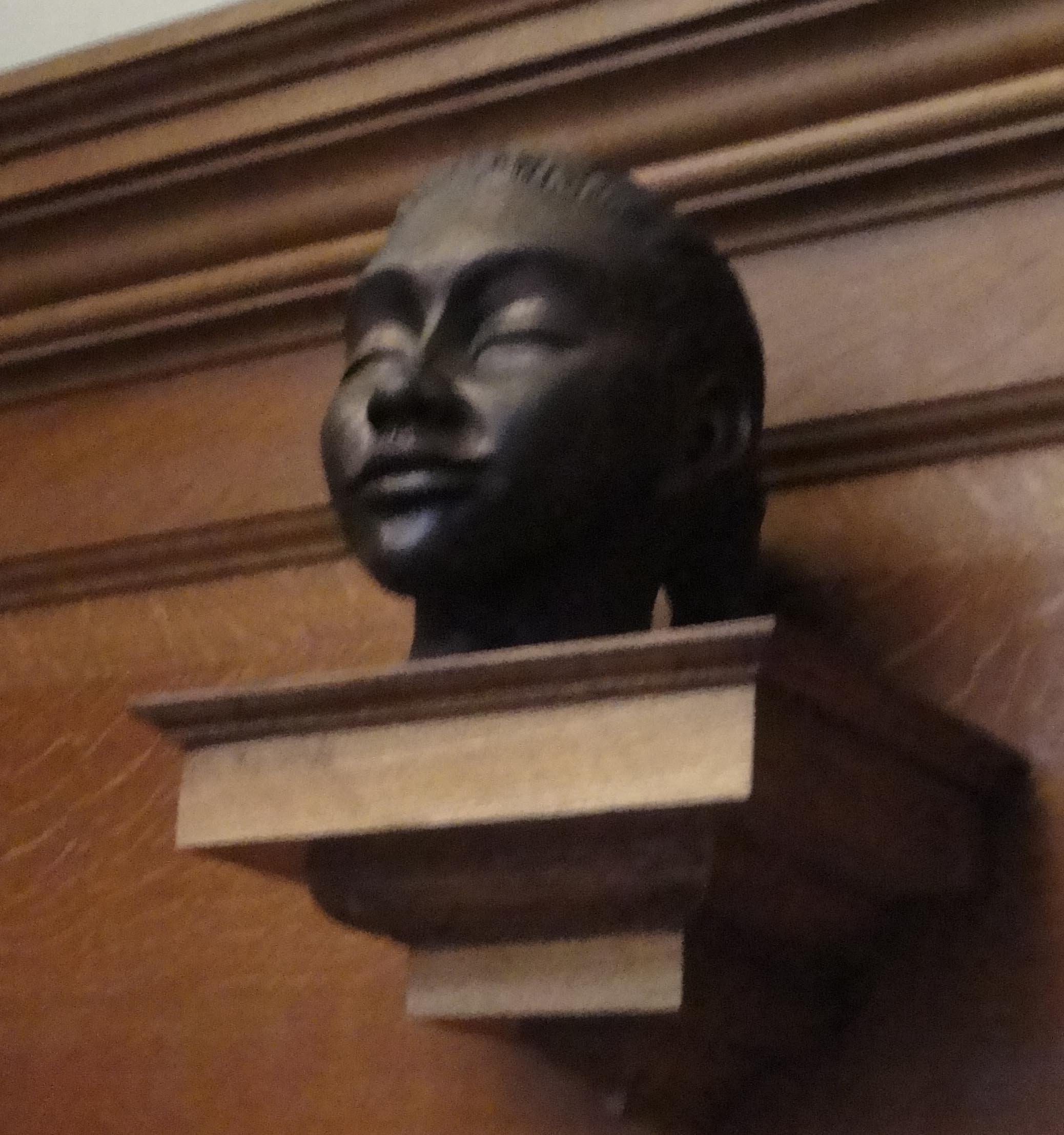 Bust of Virginia Dare in St Bride's Church Fleet St